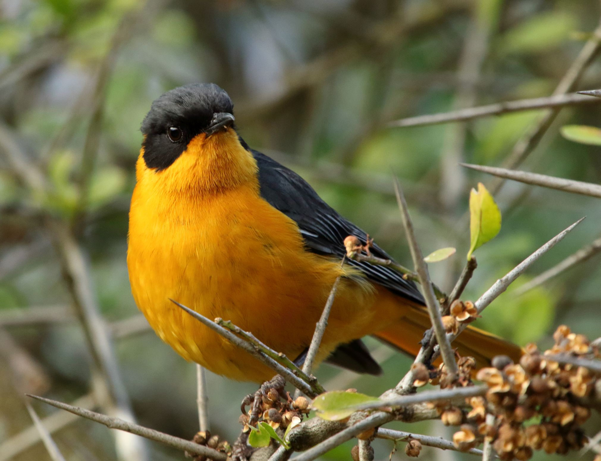 Chorister Robin-Chat Cossypha dichroa at Thendele, Royal Natal National Park, KwaZulu-Natal, South Africa.